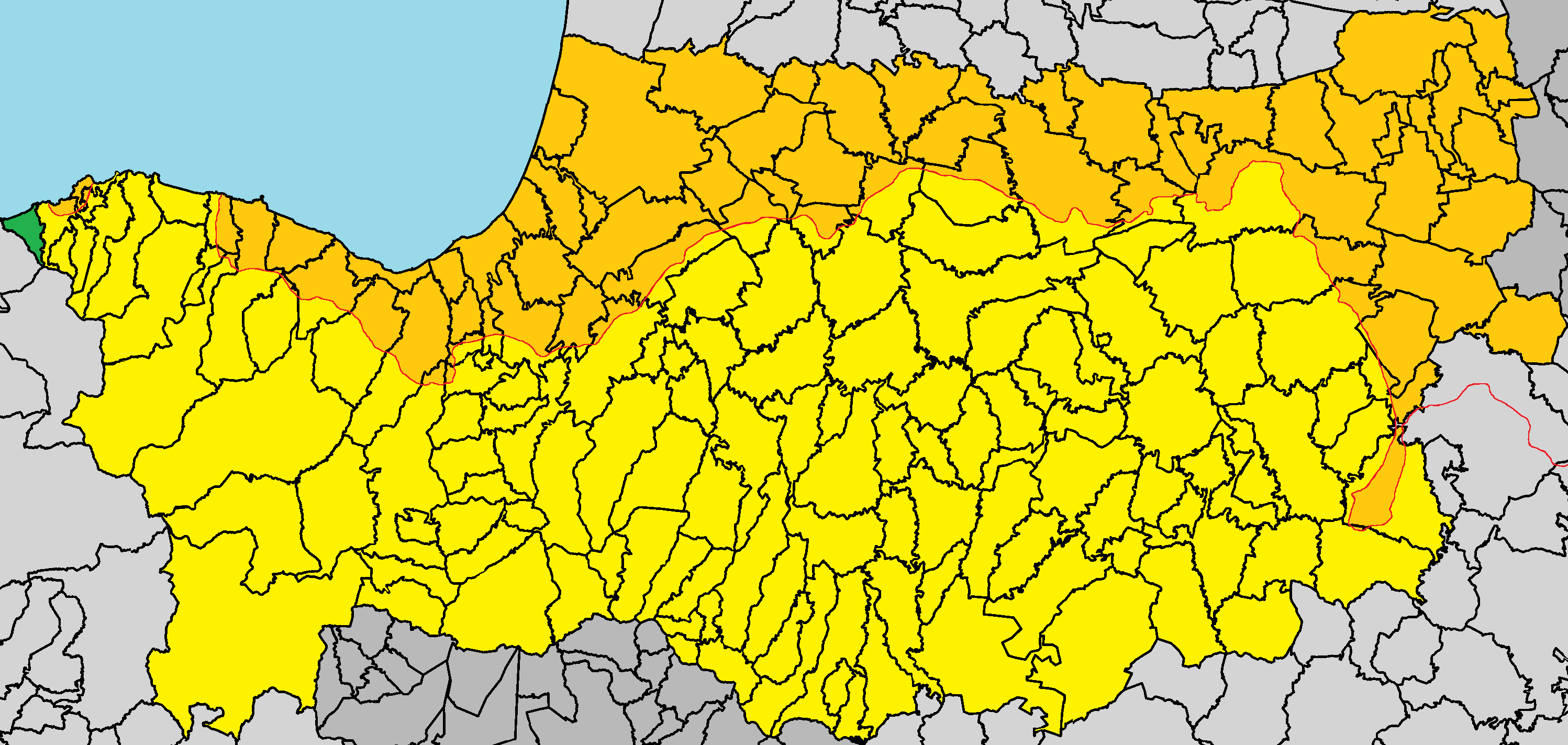 Pachyammos in Nicosia District.